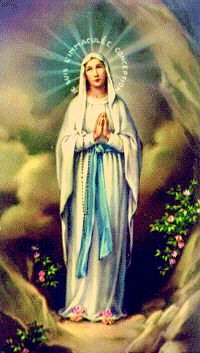 Generally available Marian image created in the 1880s. The white circular text in the halo reads: "Je suis l'Immaculée Conception" (French for "I am the Immaculate Conception"). From Jtdirl's collection. Copyright long expired.